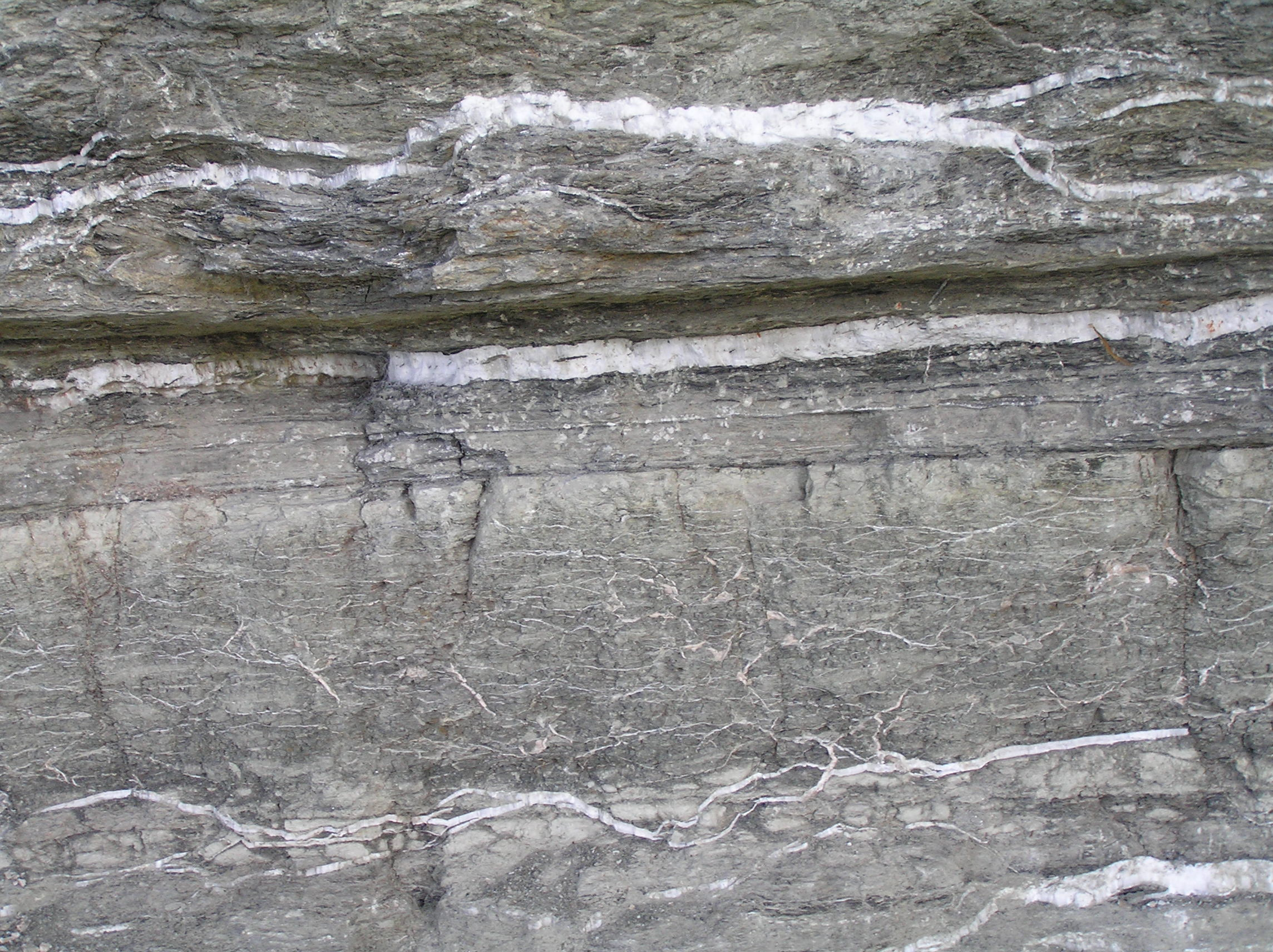 Gipskeuper